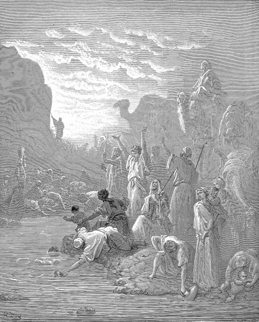 Moses Striking the Rock in Horeb, engraving by Gustave Doré from "La Sainte Bible"